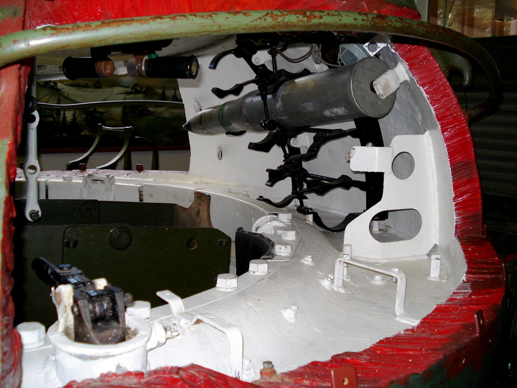 Russian T-54 tank, used by Finland. This model was cut open in for training purposes. Various systems of the tank have been illustrated with different colors. View of ammunition storage racks in the back of the turret. Finnish Tank Museum (Panssarimuseo) in Parola.